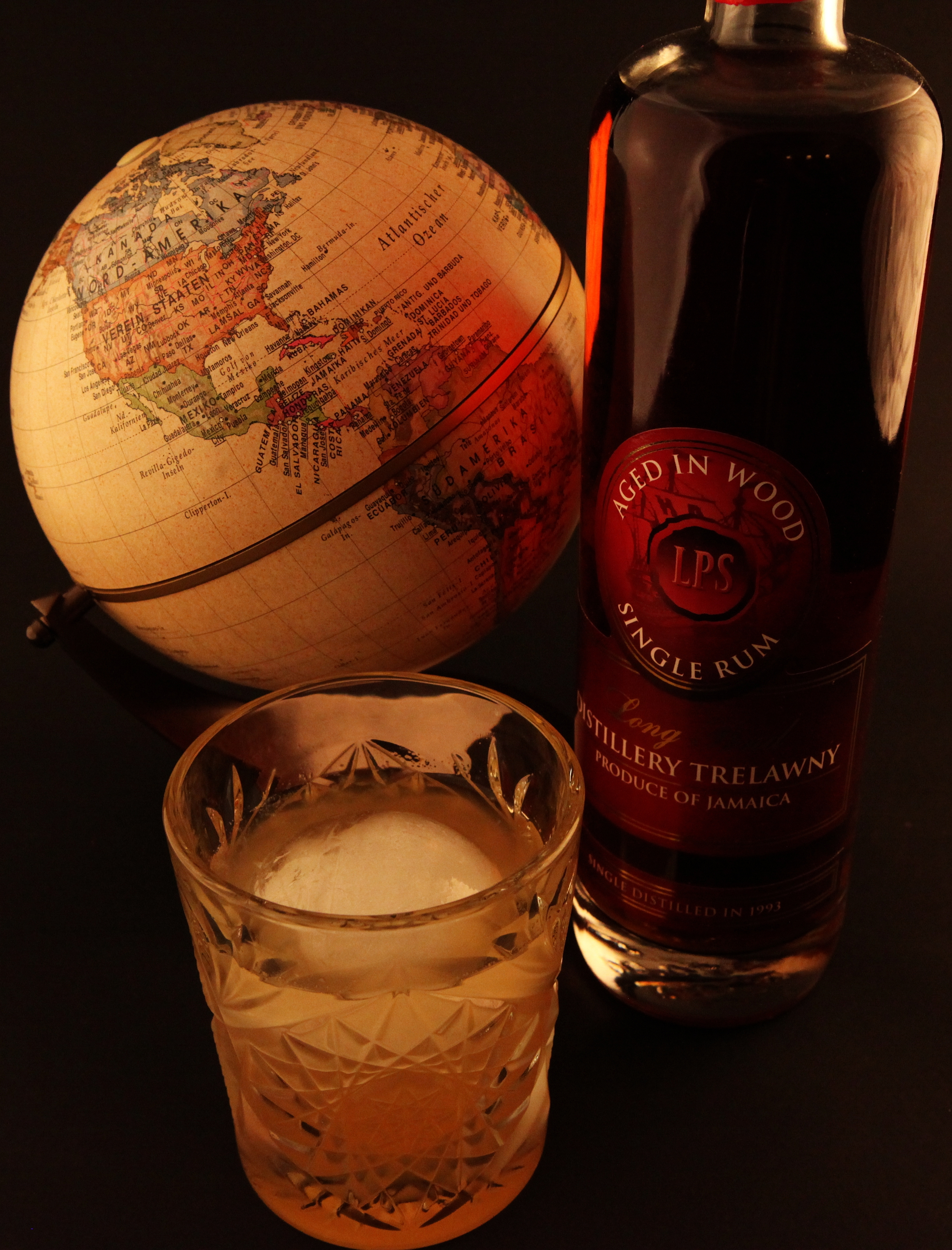 Mai Tai cocktail made with LPS Long Pond (1993) Jamaica Rum.